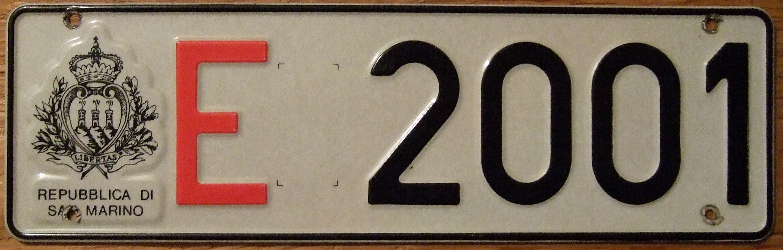 A temporary license plate from San Marino with coat of arms.